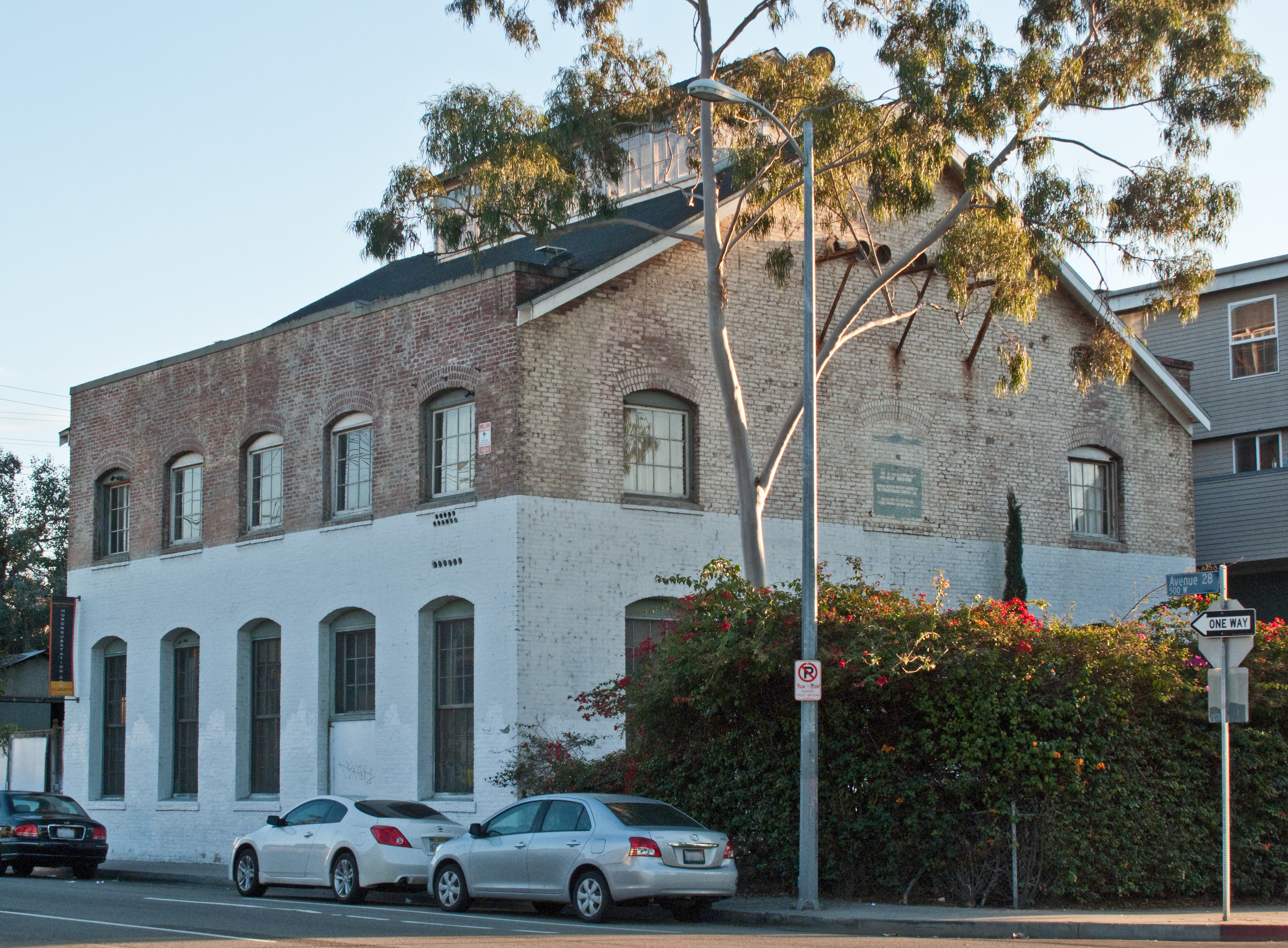 The Los Angeles Railway Huron Substation, 2640 N. Huron St., in the Cypress Park neighborhood of Los Angeles, California. Los Angeles Historic-Cultural Monument #404.